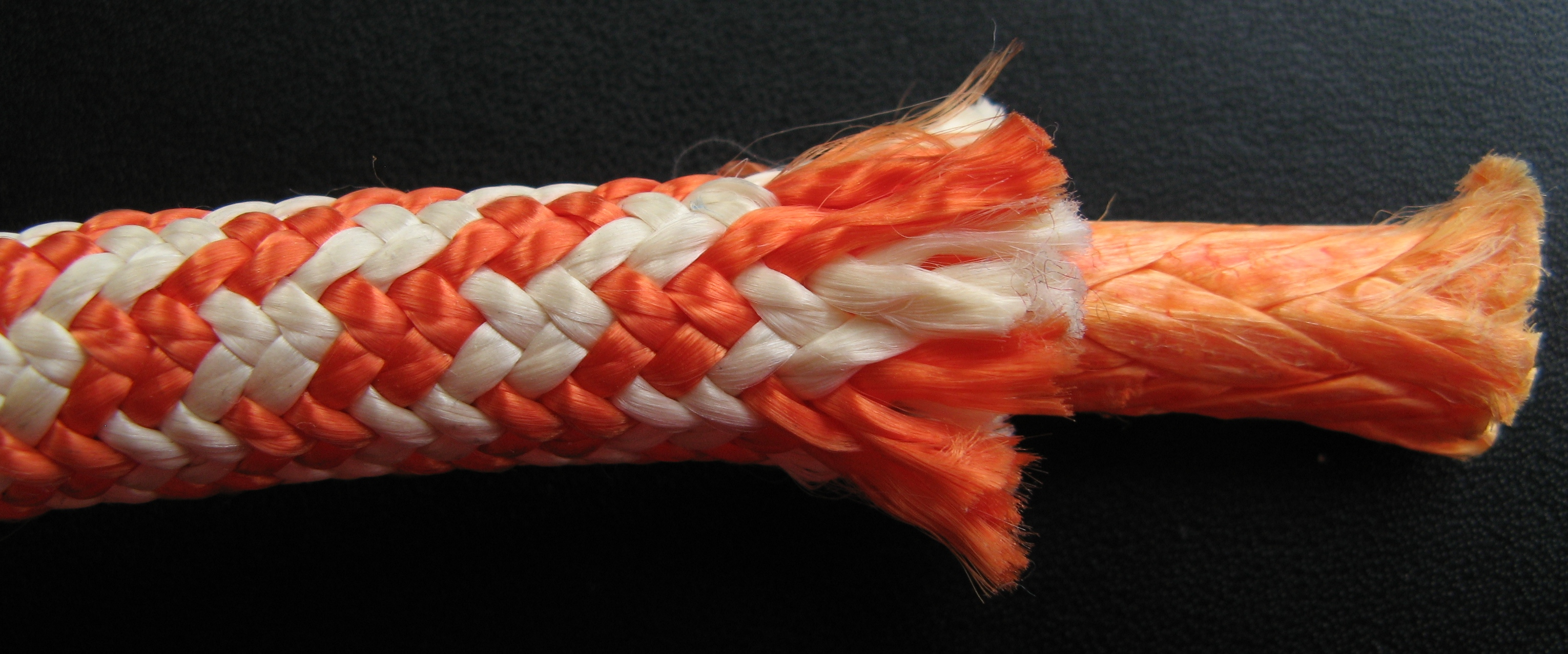 High Performance rope (LIROS Racer-XTR). Core: Dyneema SK78 (12 plait) Cover: 50/50 Vectran/Polyester (32 plait) Diameter: 12 mm Breaking strength: 9900 kg